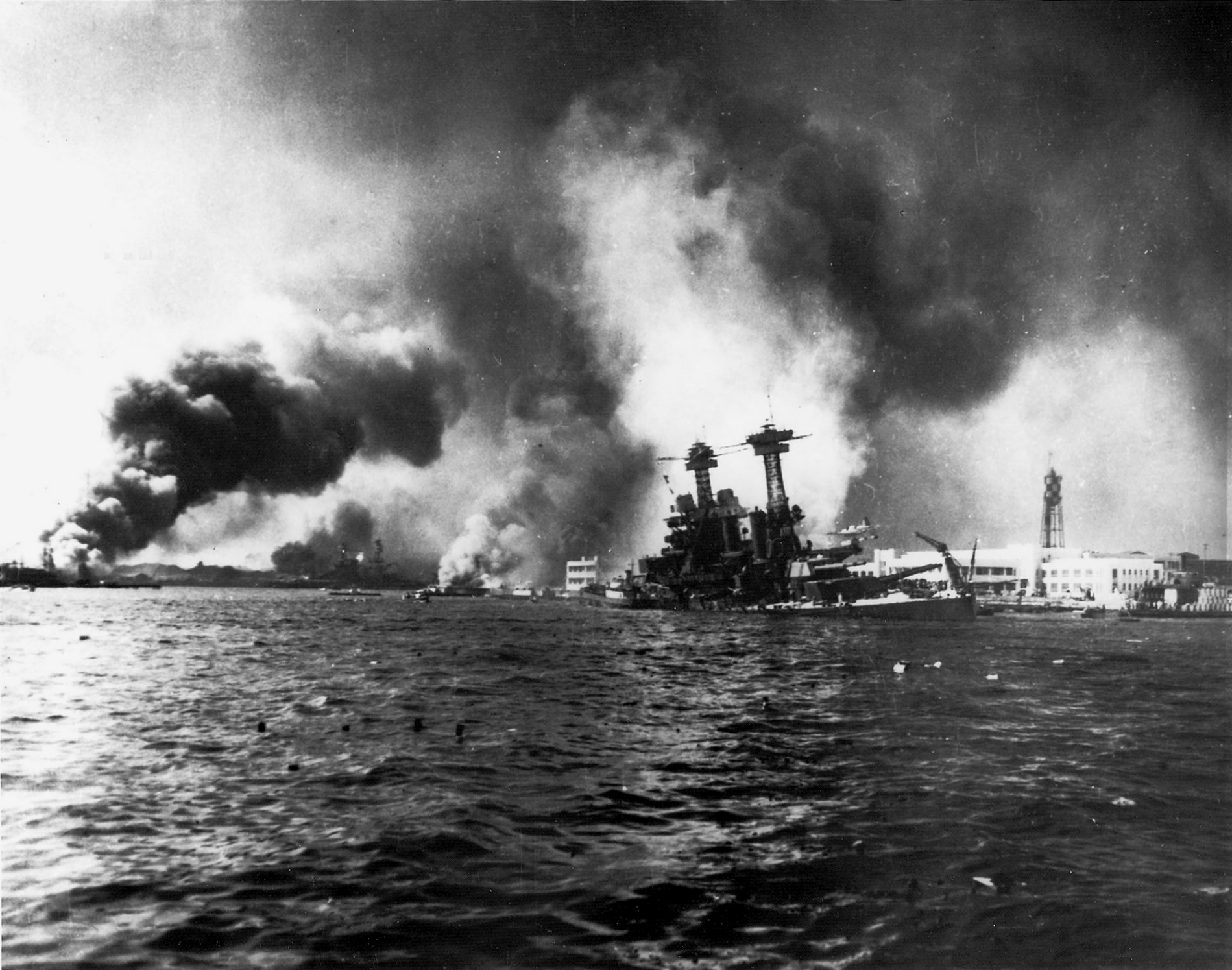 The U.S. Navy battleship USS California (BB-44) slowly sinking alongside Ford Island, Pearl Harbor, Hawaii (USA), as a result of bomb and torpedo damage, 7 December 1941. The destroyer USS Shaw (DD-373) is burning in the floating dry dock YFD-2 in the left distance. The battleship USS Nevada (BB-36) is beached in the left-center distance.